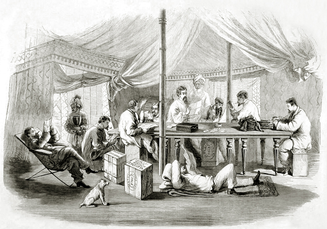 Officers of 11th Punjab Infantry (later, 22nd Punjabis, and now 7 Punjab, Pakistan Army) in camp at Pehtang, China, 1860. Illustration by Charles Wirgman. Published in the Illustrated London News, 1860.